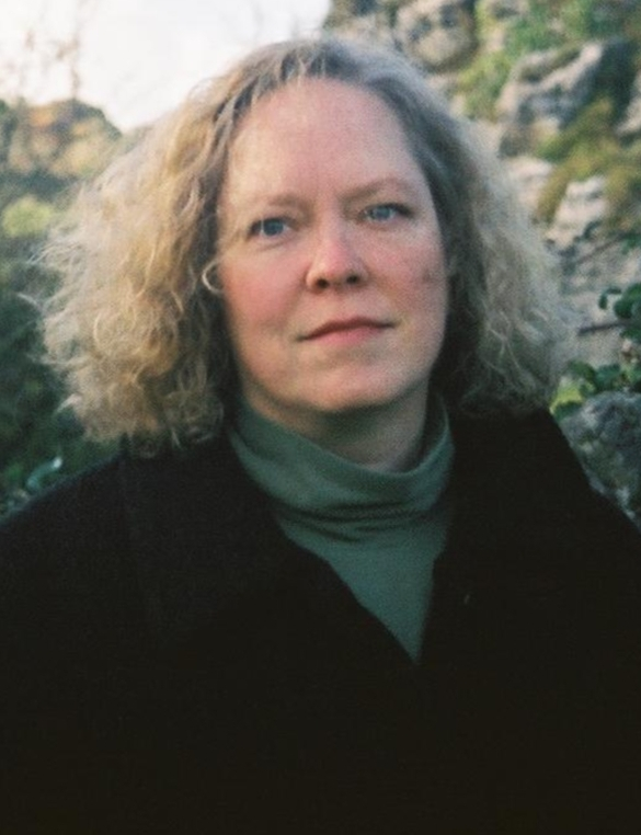 Erin Hart at Lake Inchiquin, outside Corofin, Co Clare, Ireland. Photo by Paddy O'Brien.